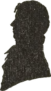 Silhouette of Christen Mølbach (1766–1834); Norwegian merchant who represented Stavanger amt at the Norwegian Constituent Assembly at Eidsvoll in 1814